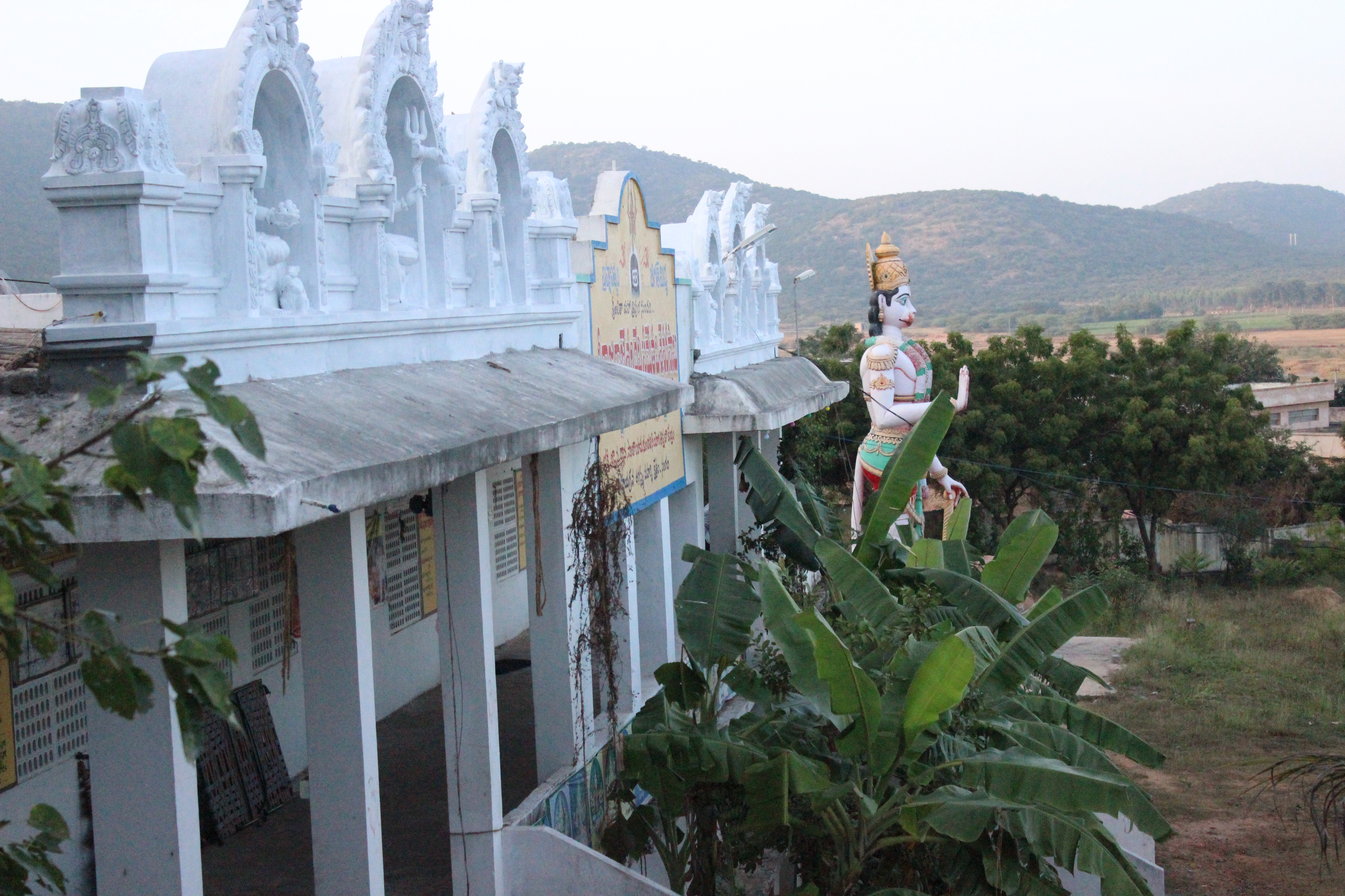 sangam temples